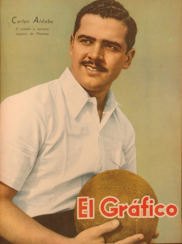 Carlos Aldabe - football player and coach, here in the jersey of CA Platense